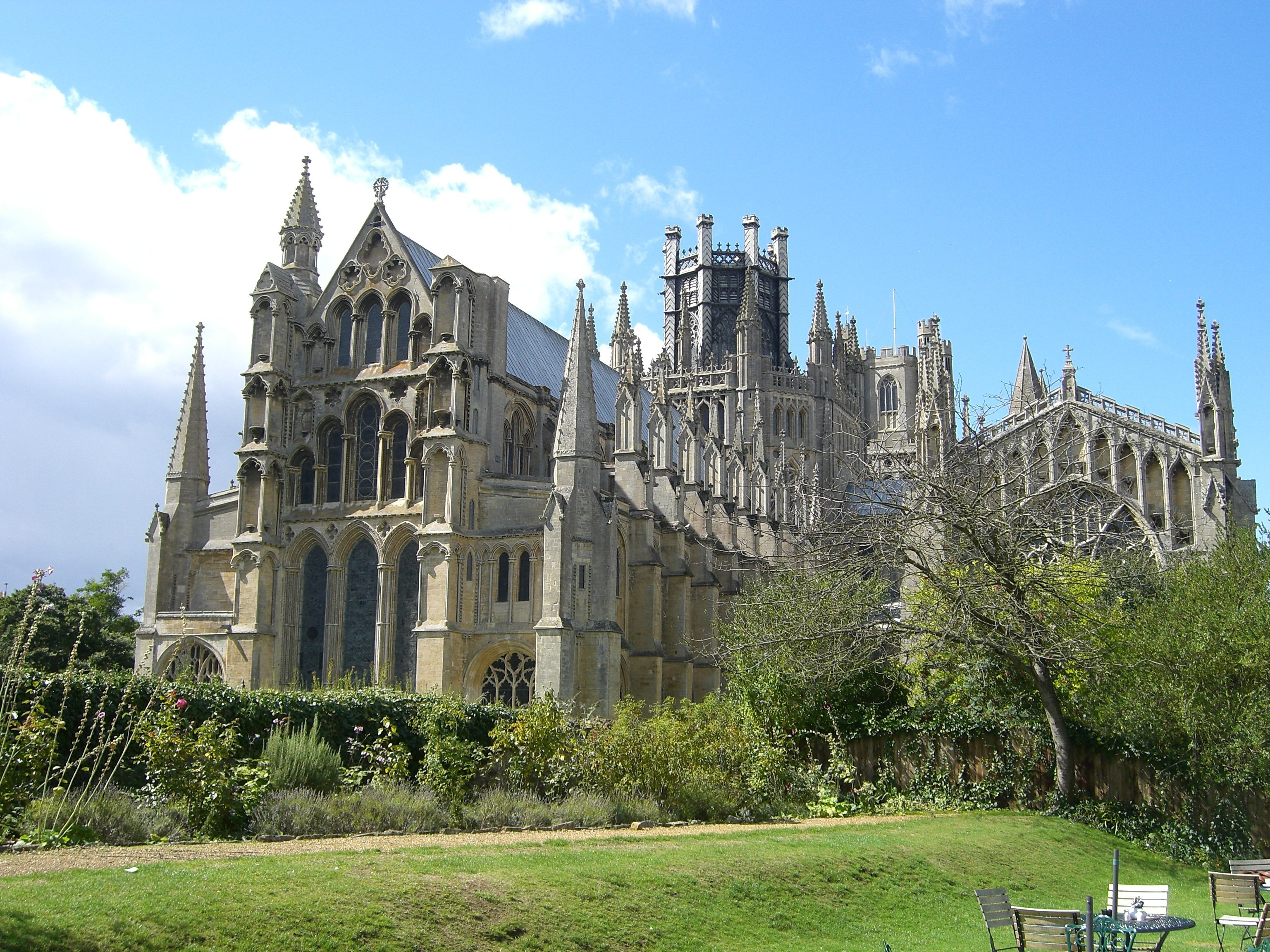 Ely Cathedral